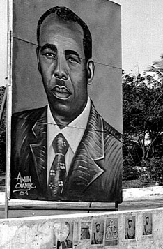 Poster in Mogadishu of Mahammad Siad Barre, a revolutionary leader of Somalia, deposed in 1991